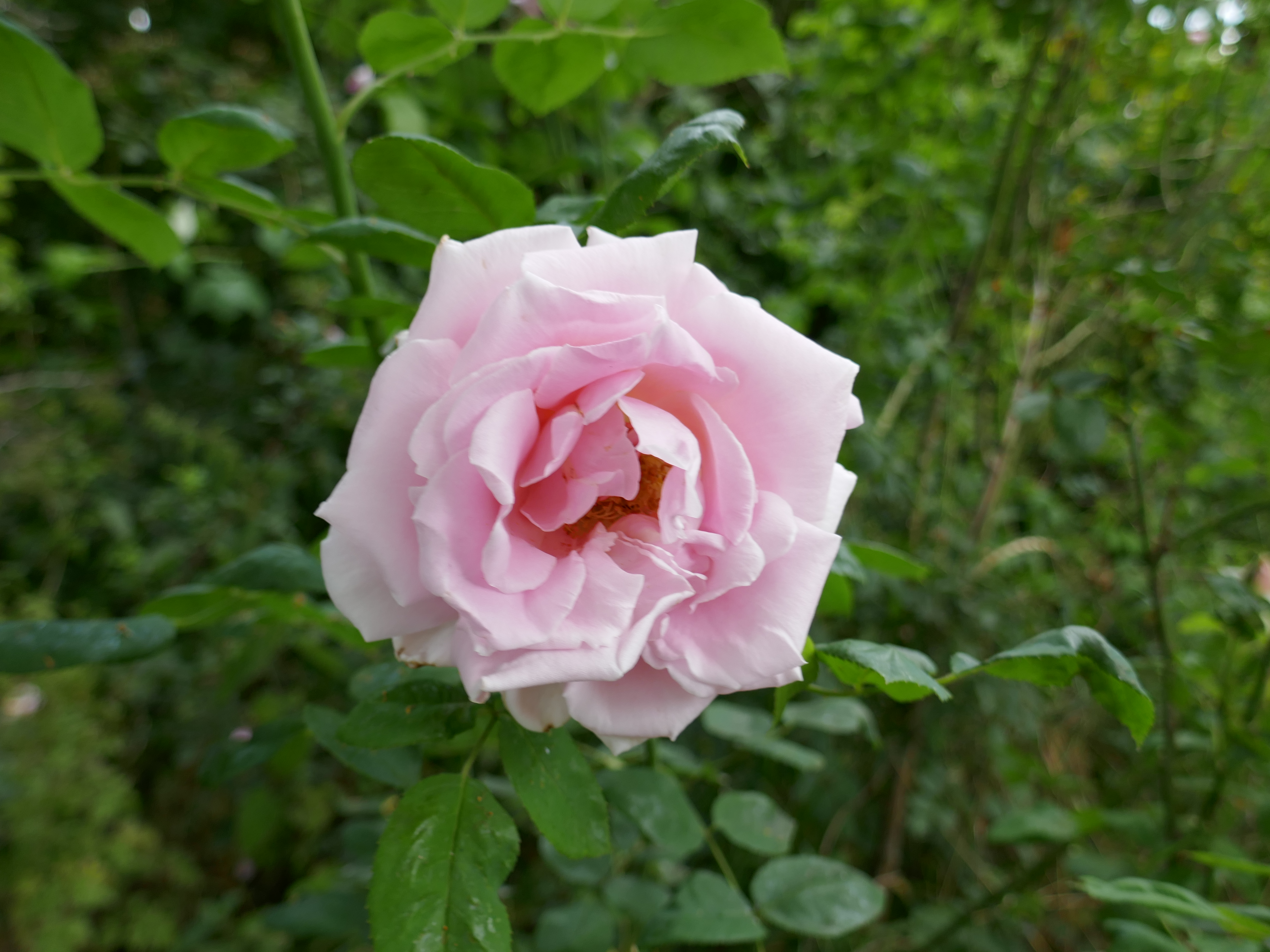 Rosa 'Dr. Mazaryk' (Böhm, 1930) flowering on Rosenhang Karben (Germany)